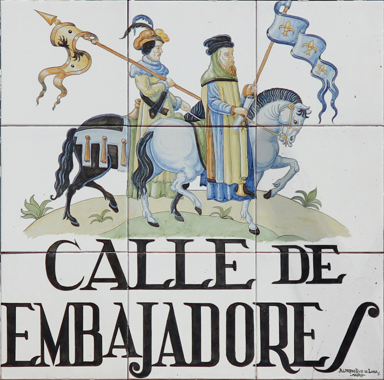 Sign of Calle de Embajadores (street) in Madrid (Spain).